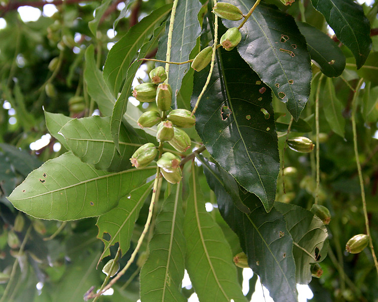 Barringtonia acutangula - Freshwater Mangrove, Indian Oak, Samudraphal, Nivar, Pivar, Hijal in Kolkata, West Bengal, India.